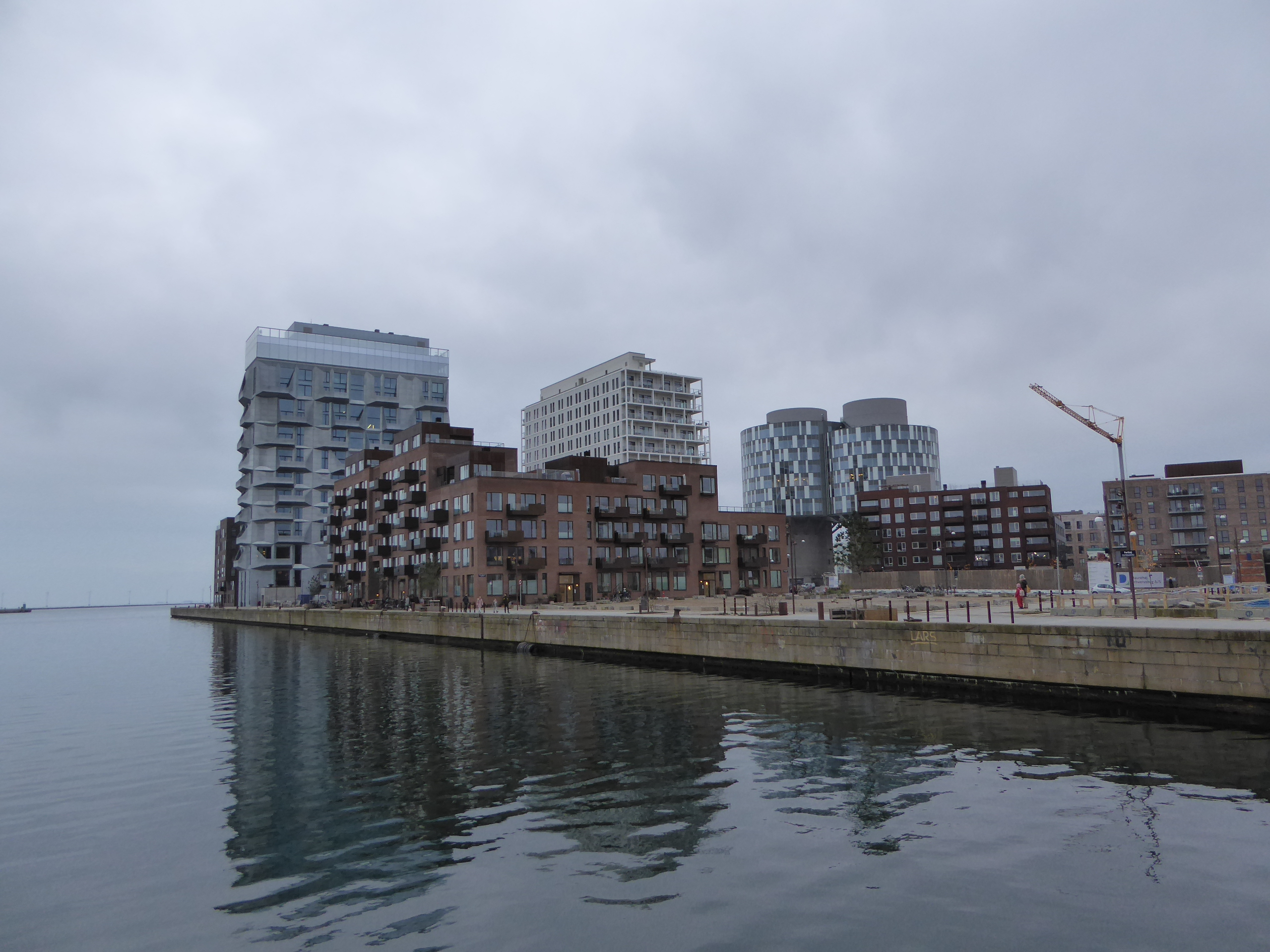 The quay and street Fortkaj in Nordhavn in Copenhagen. In the middle the buildings Kronløbshuset and Havnehuset and behind those The Silo, Frihavns Tårnet and Portland Towers.